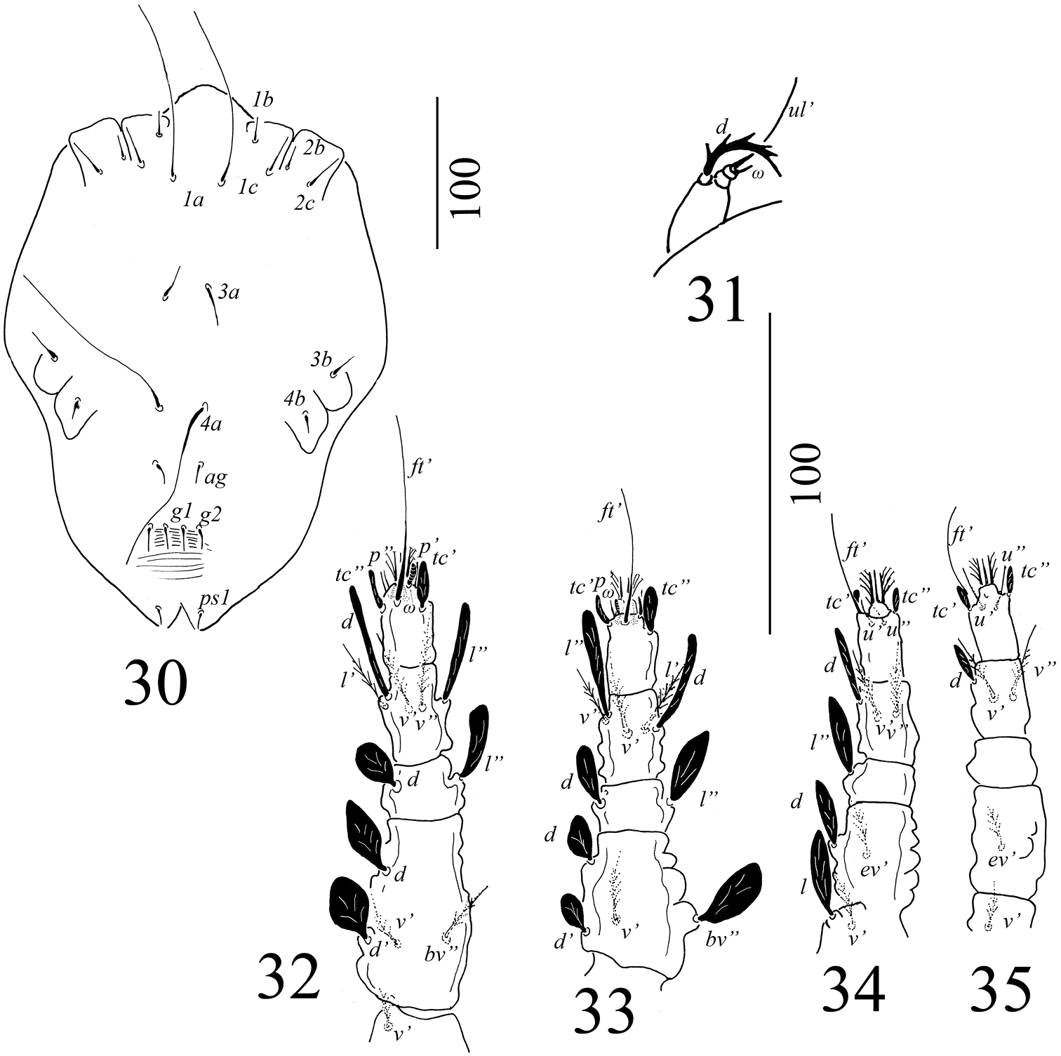 Figures 30–35; Tenuipalpus szarvasensis Bozai, 1970, holotype, female 30 Ventral view of idiosoma 31 Dorsal view of palp 32 Ventral view of leg I 33 Ventral view of leg II 34 Ventral view of leg III 35 Ventral view of leg IV.